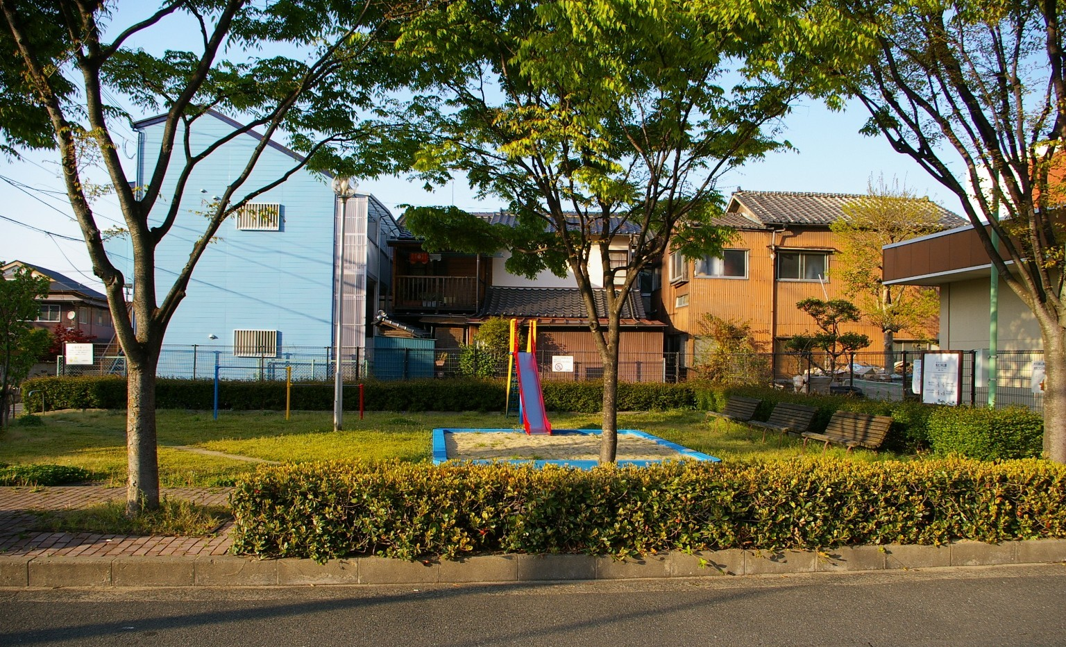 Hakata